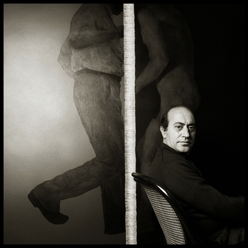 Portrait of Carlo Alfano